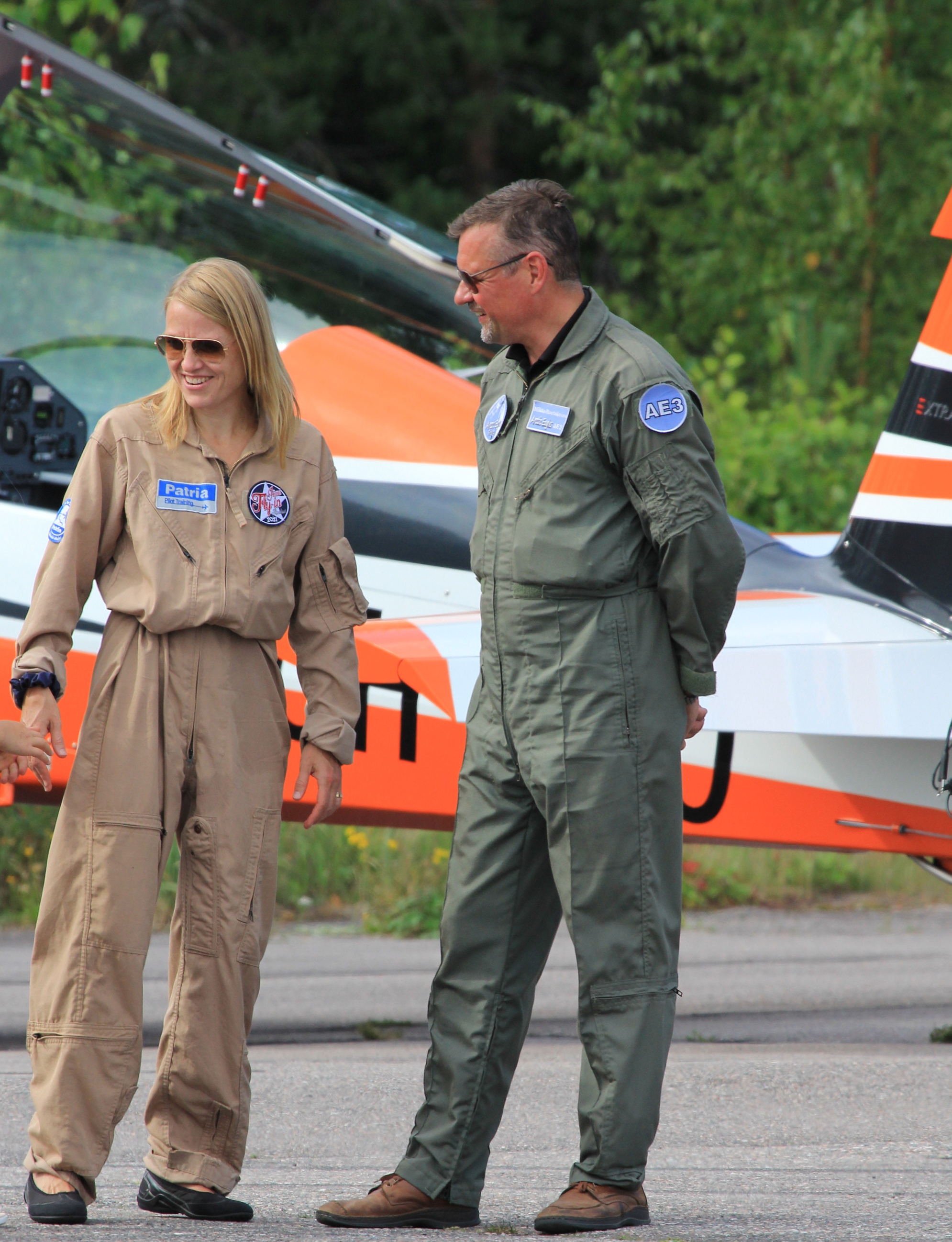 Chief executive of Asikkala municipality Rinna Ikola-Norrbacka (left) and aerobatics pilot Miikka Rautakoura (right) at Lahti-Vesivehmaa Airfield, Asikkala, Finland. - Photo taken after aerobatics performance with Extra 330LX (OH-OBO, background), Rautakoura as pilot and Ikola-Norrbacka as passenger. Flight was part of Lahti-Vesivehmaa airfield 80 years airshow August 15 th 2020.